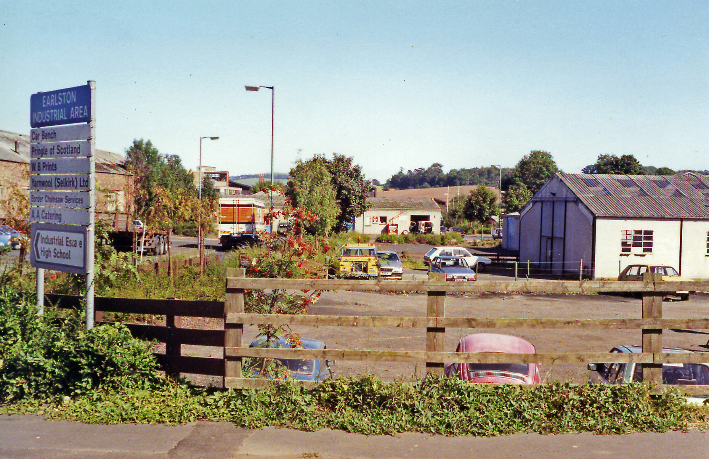 Site of former Earlston station, 1991. View eastward, towards Duns and Reston: ex-NBR Reston - Duns - Greenlaw - St Boswells line. After the Great Floods of 12/8/48, Earlston lost its passenger services, which ceased Duns - St Boswells, but after some months freight traffic was restored until complete closure came about from 19/7/65: Reston - Duns lost passenger services from 10/9/51, goods from 7/11/66.